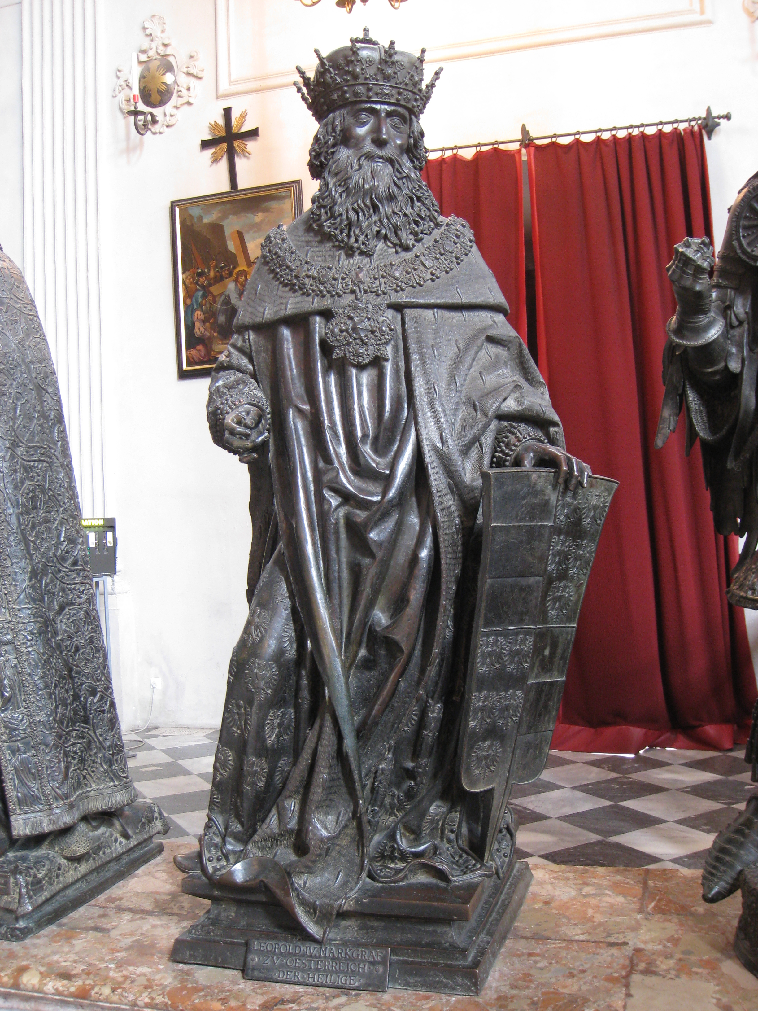 Statue within Hofkirche, Innsbruck, Austria. This statue is old enough so that it is not covered by any copyright.